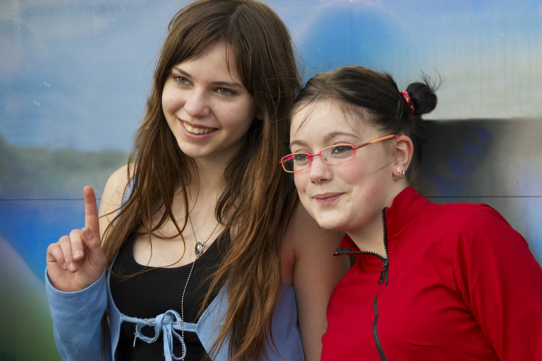 Smiling teenage girls. Photo taken on the outside platforms of EuraLille Center during the 'Fête de l'Animation' at Lille (20, 21 and 22 october).